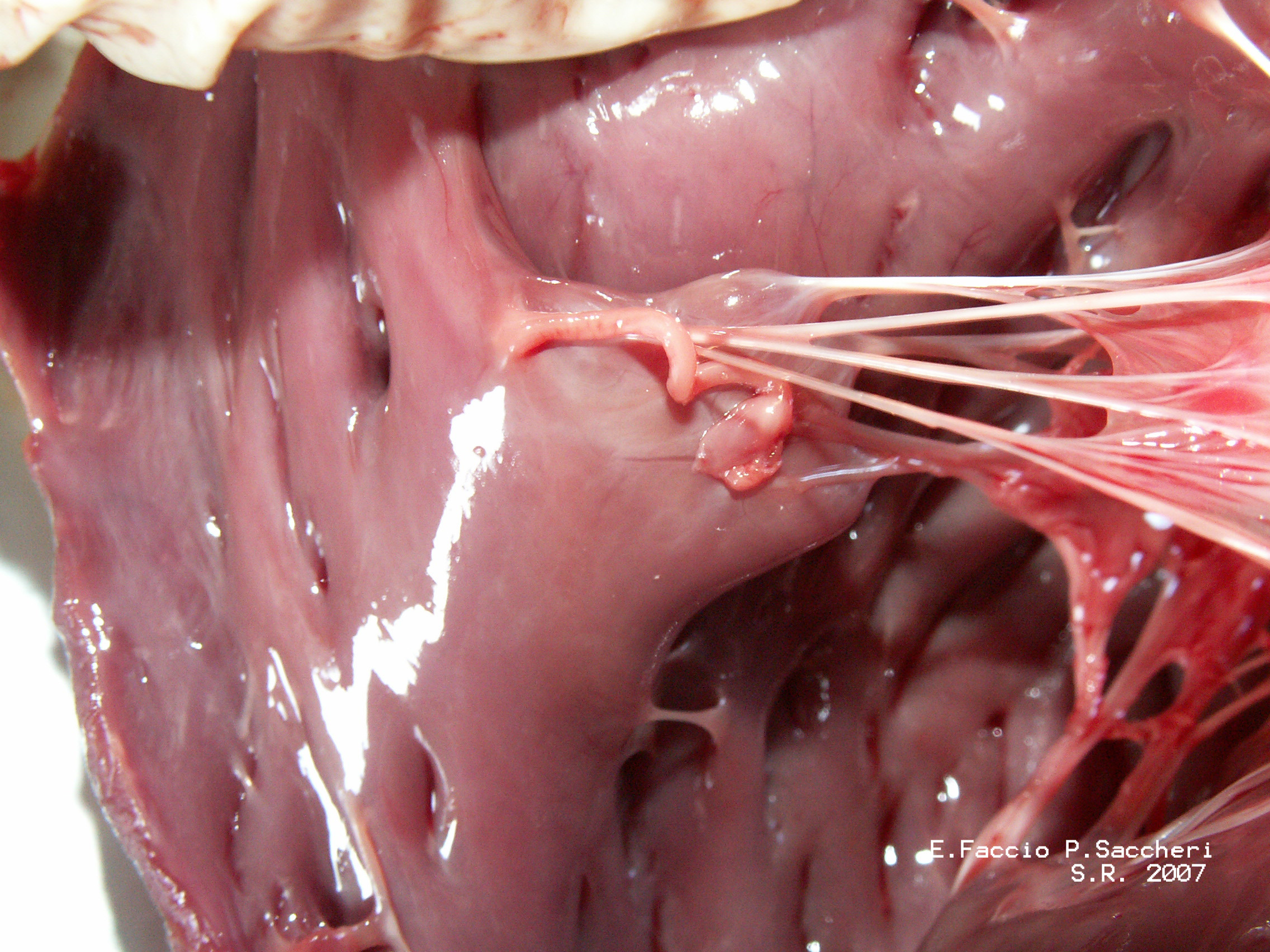 heart